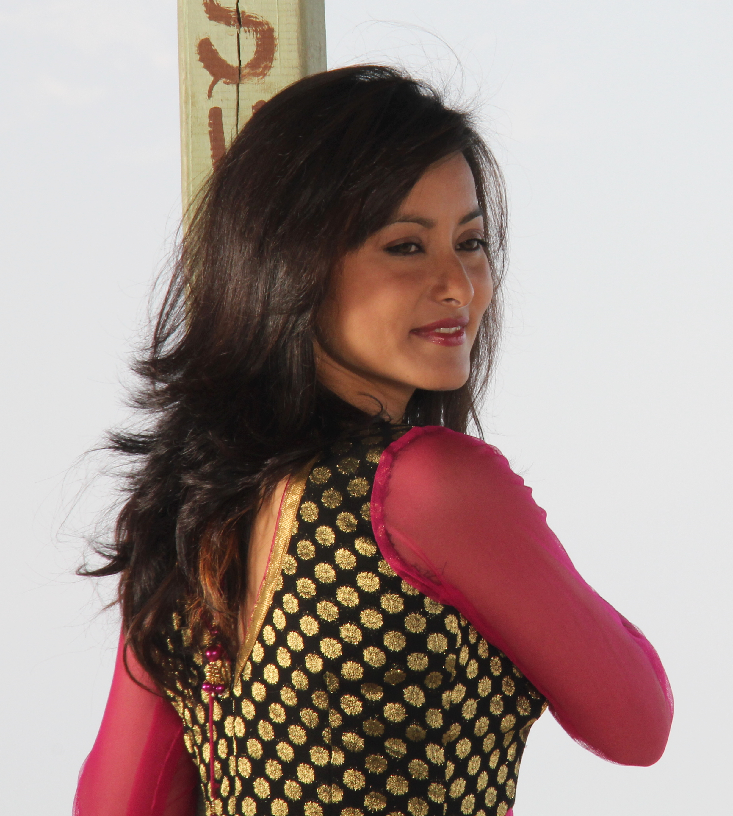 Namrata Shrestha at Dolakha during the shooting of movie "Mega" February 2013